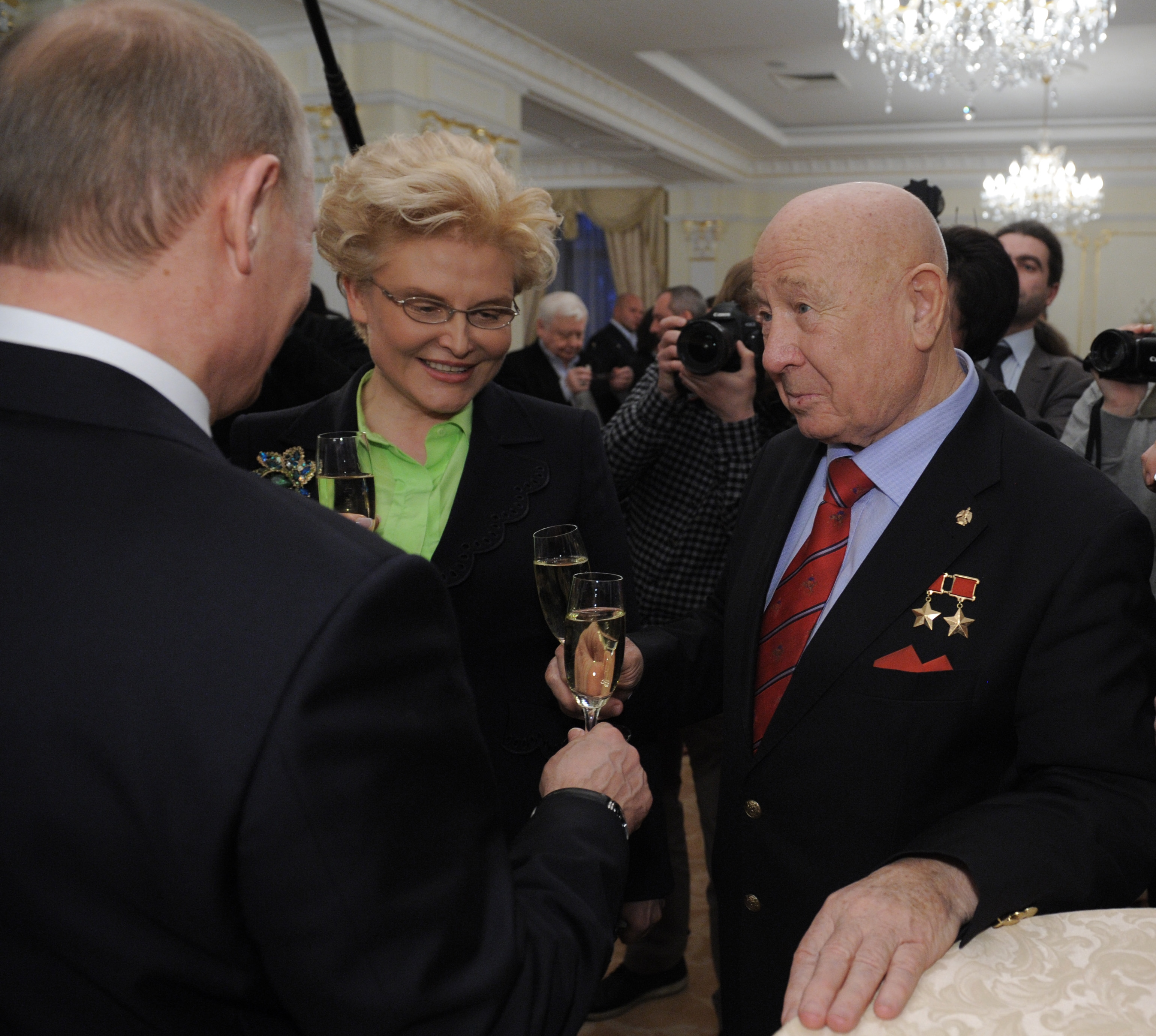 Vladimir Putin, TV show host Dr Yelena Malysheva and Pilot-Cosmonaut of the USSR and Twice Hero of the Soviet Union, Alexei Leonov